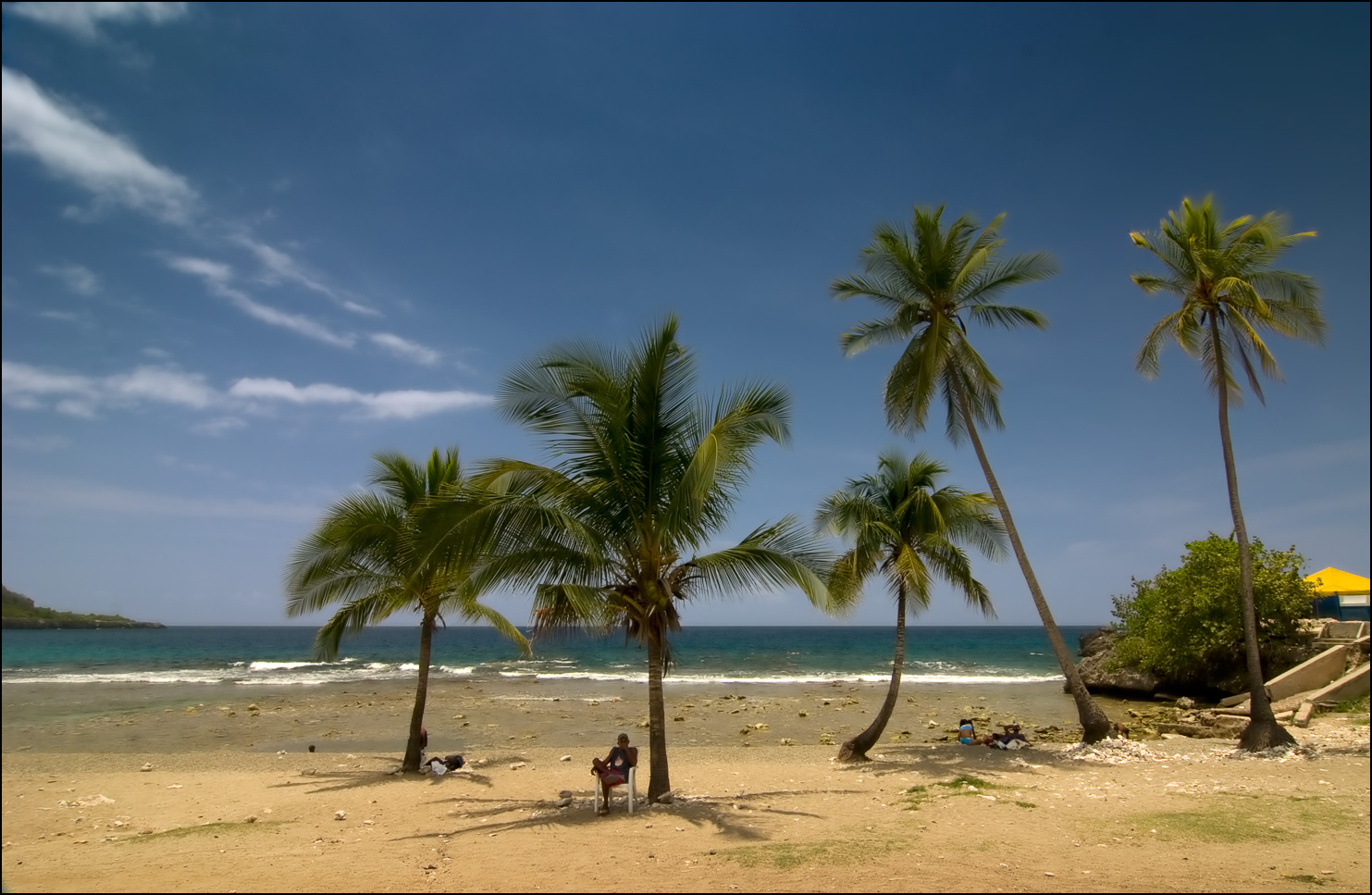 Siboney beach view, Cuba, Province of Santiago de Cuba